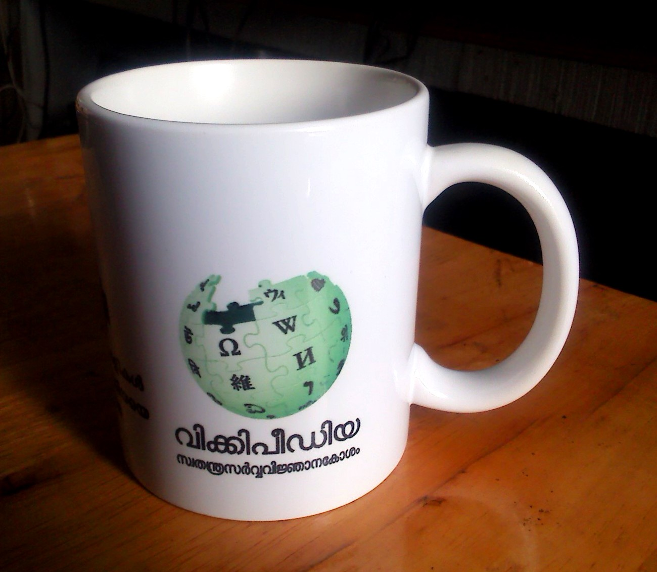 A Mug Embossed with wikipedia emblem